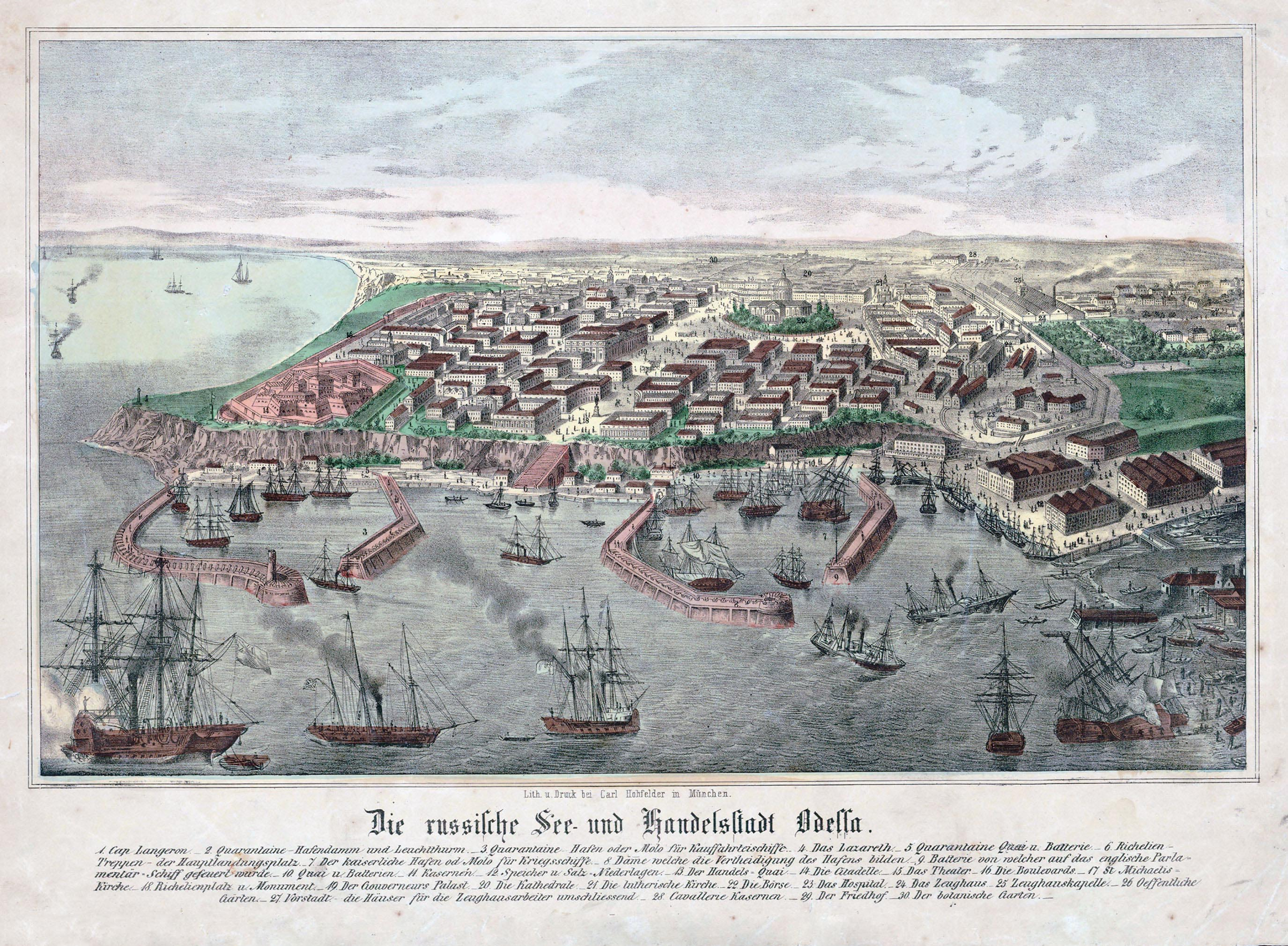 Map of Odessa 1850 Flickr data on 2011-08-13 Tags: Old picture, Odessa, Map, Public Domain License: CC BY-SA 2.0 User: paukrus Ruslan